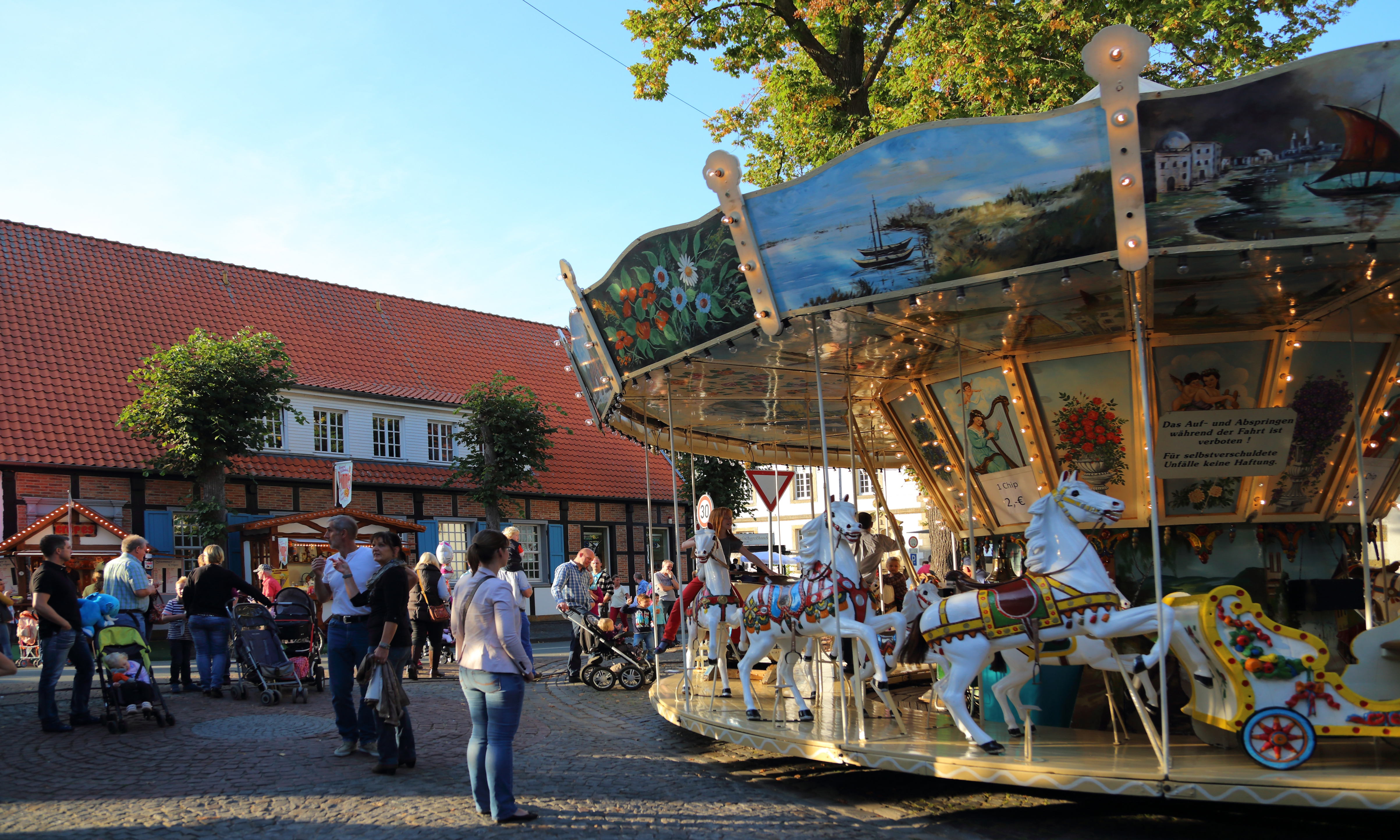 The nostalgic Little Horses Carousel („Pferdchenkarussell“) at the funfair (Kirmes) in Hopsten, Kreis Steinfurt, North Rhine-Westphalia, Germany. This carousel has it's traditional place on the market square.